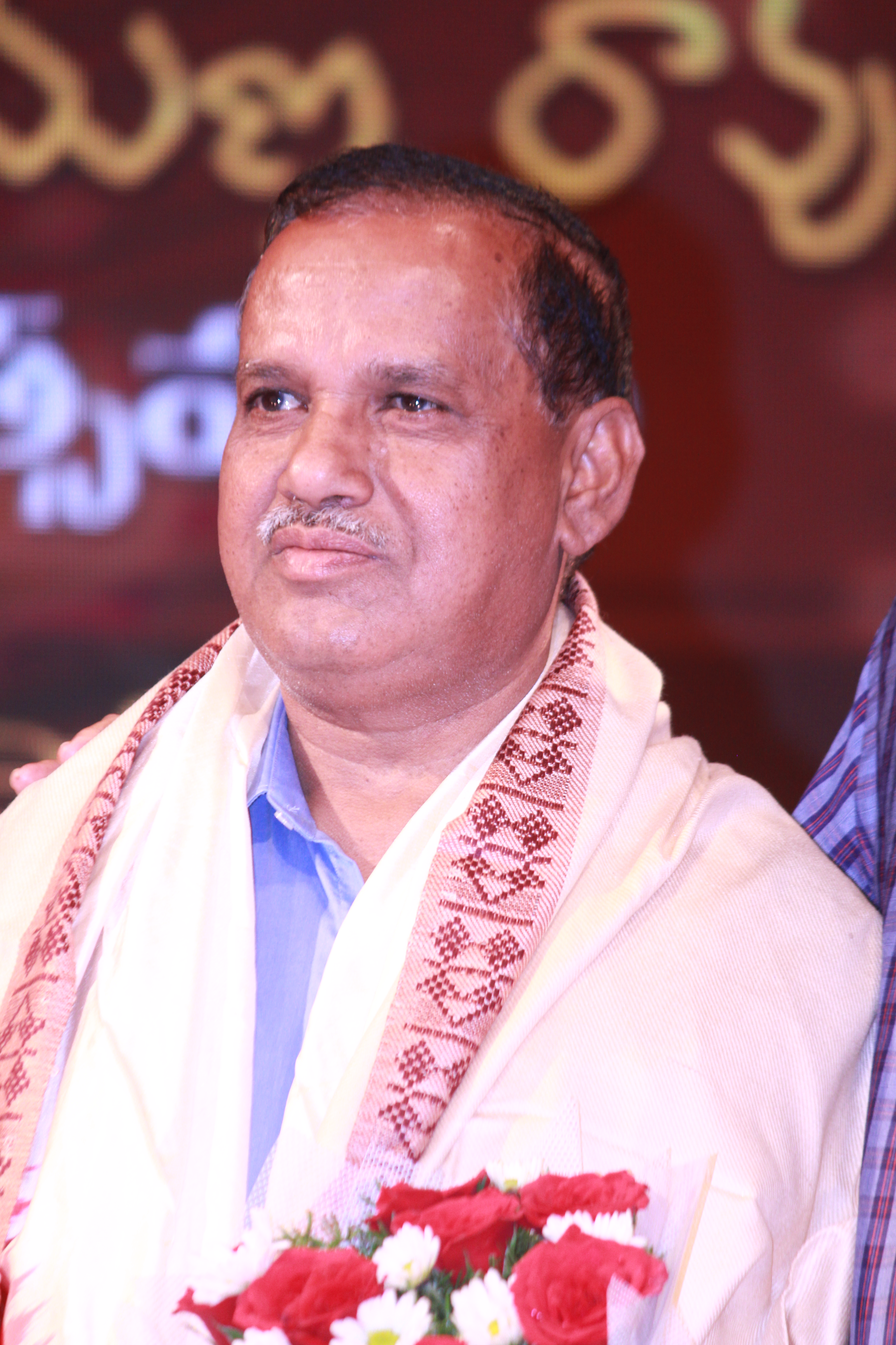 2019 కాళోజి నారాయణరావు పురస్కార గ్రహీత ప్రముఖ కవి కోట్ల వెంకటేశ్వర్ రెడ్డి